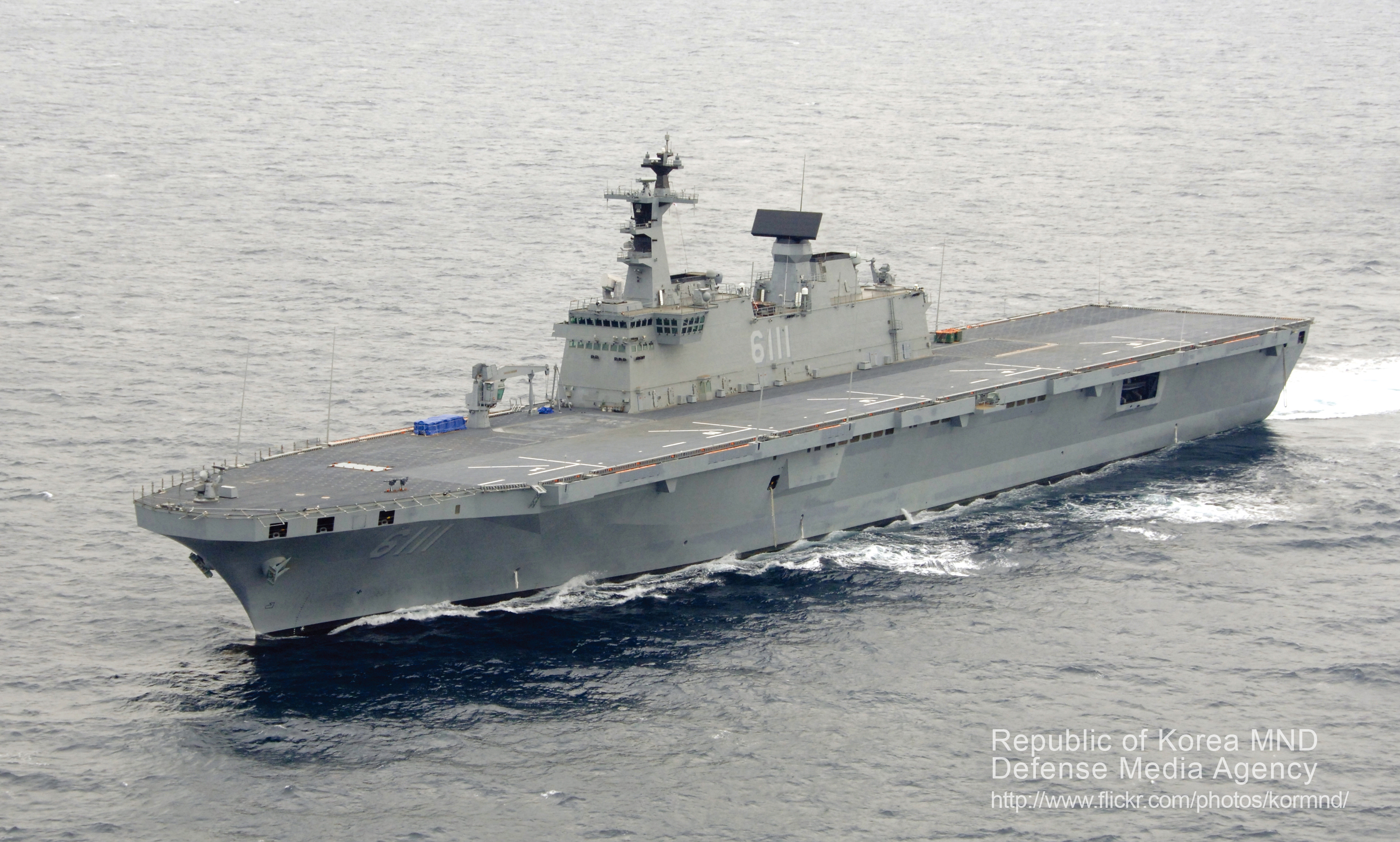 2008 국방화보 Rep. of Korea, Defense Photo Magazine 상륙작전에서 지휘함으로 활약할 1만4000톤급 독도함 ROK NAVY's battle ship of 14,000t class Dokdo. commanding ship for the amphibious operations.